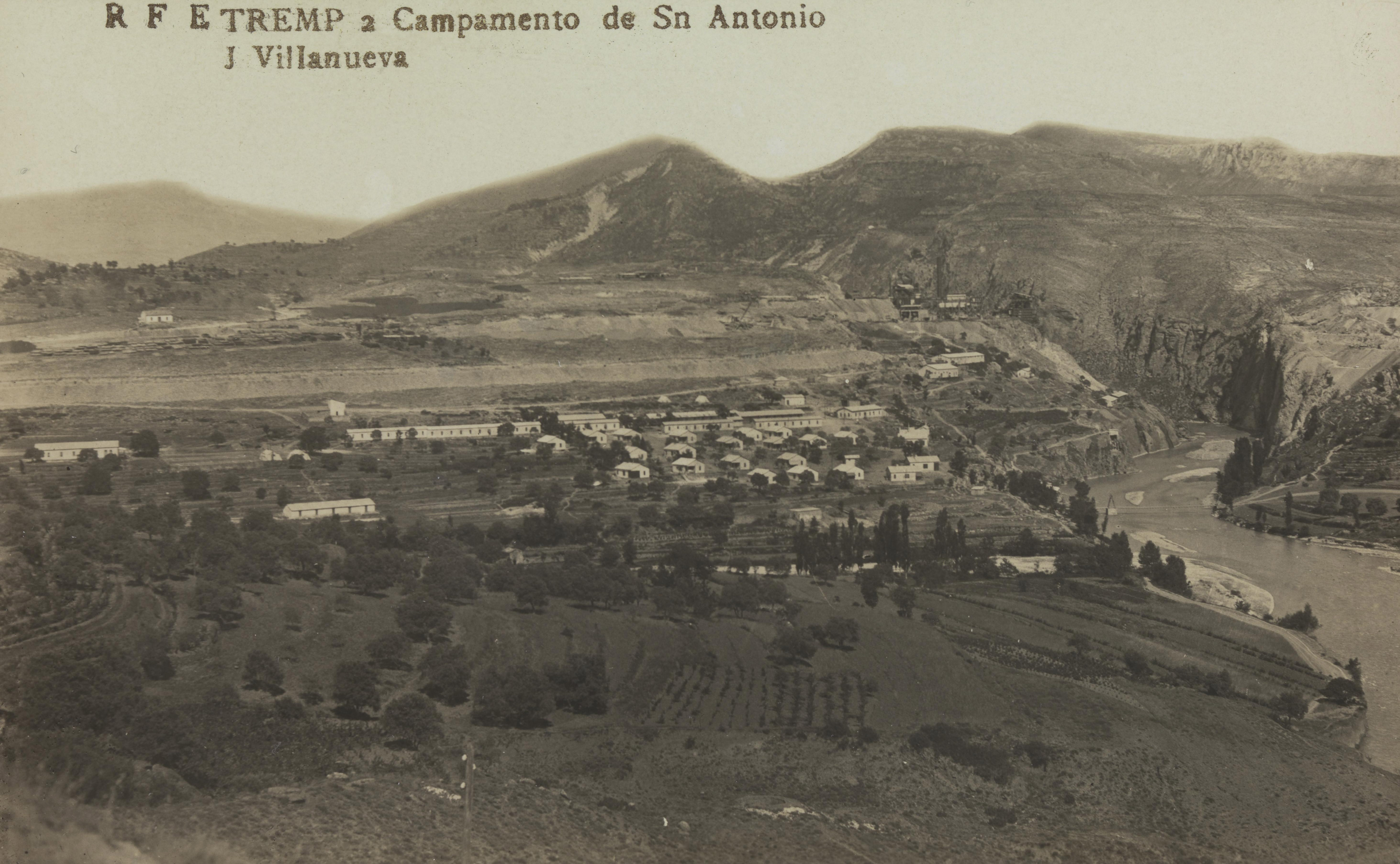 Worker's campsite and concrete plant for the construction of Talarn hydropower plant (Catalan Pyrenees)